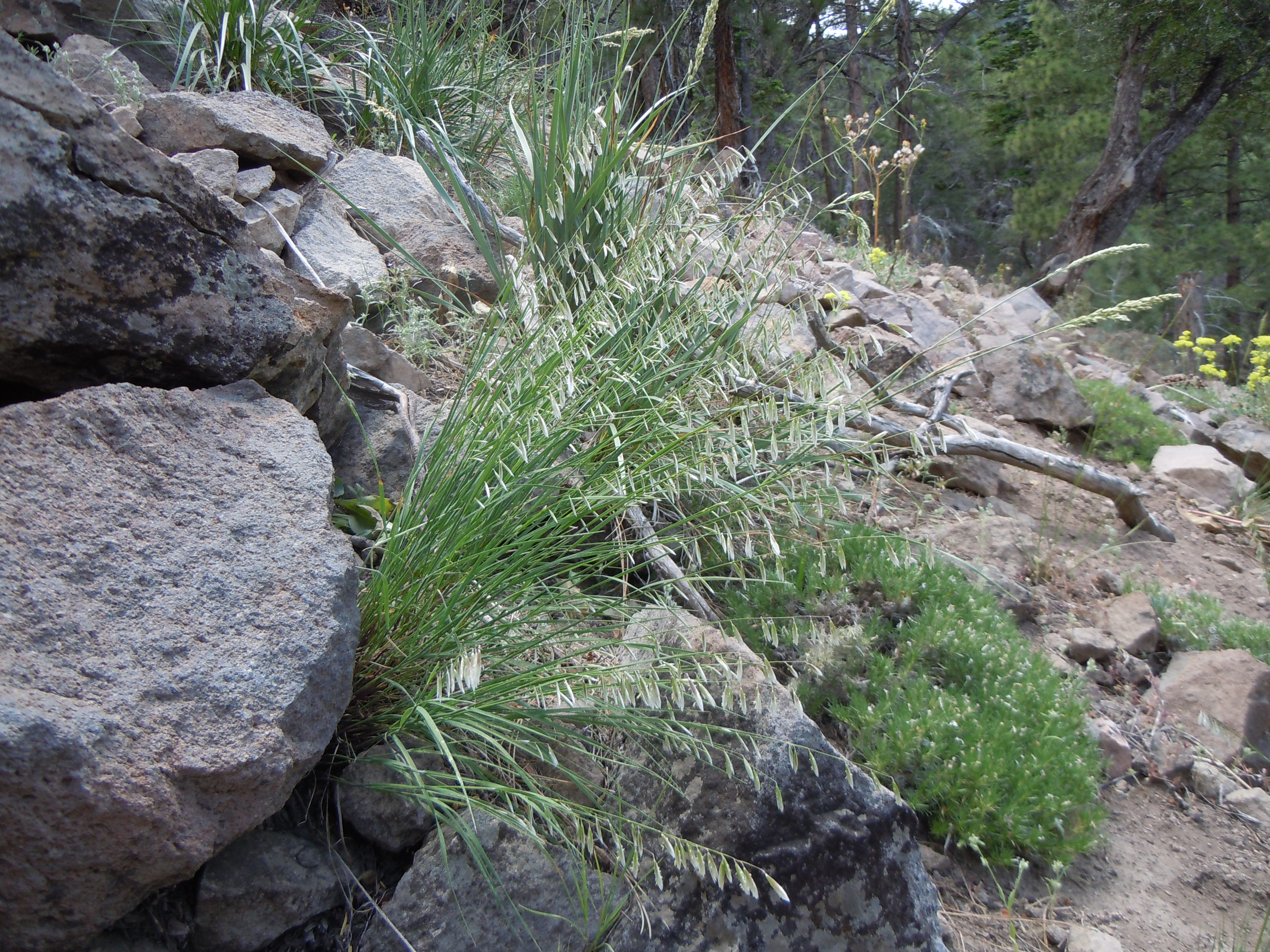 Melica stricta enters the sagebrush steppe but apparently only in somewhat disturbed settings such as rocky slopes with loose soils and similar rocky settings.